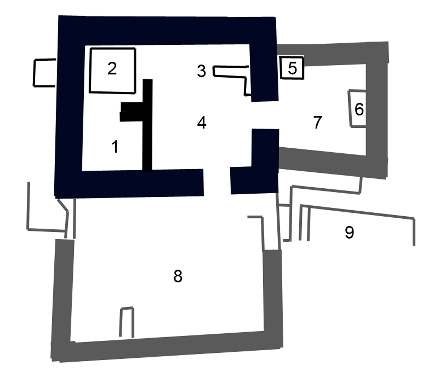 Floor plan Mauersechseck